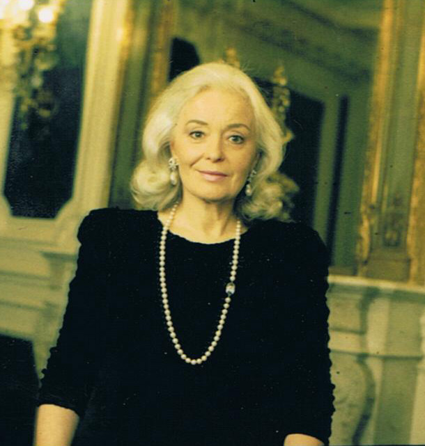 The leading Welsh soprano, Dame Gwyneth Jones, in Paris, 2002